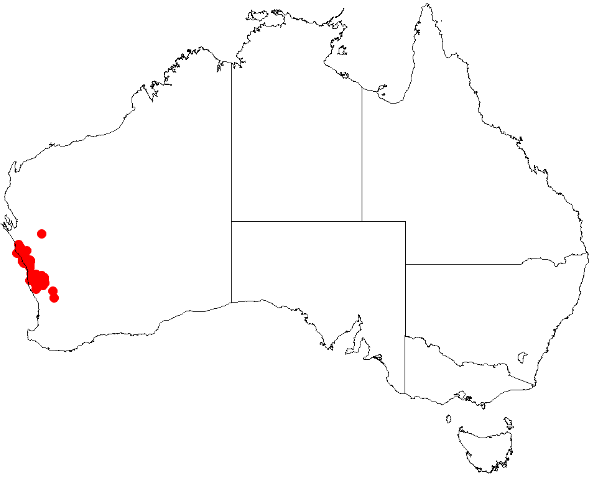 Scaevola virgata occurrence data downloaded from Australasian Virtual Herbarium on 12 May 2019